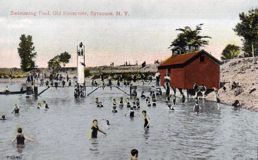 “Swimming Pool, Old Reservoir, Syracuse, New York” 1915 - When the Woodland Reservoir opened on South Geddes Street in 1894, the old Wilkinson Reservoir was no longer needed to supply Syracuse’s drinking needs. In 1898 the 71 acres around the Wilkinson Reservoir was bought by the city to form Onondaga Park. In 1903 more wooded land (the Olmstead Grove) was acquired and became a popular picnic area near the old reservoir that is still in use today. In 1911 Wilkinson Reservoir was renovated and renamed Hiawatha Lake. Today it is the central focus of Onondaga Park on the southwest side of Syracuse